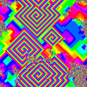 A two-dimensional cyclic cellular automaton with 16 states, on a 300×300 torus, after 400 steps starting from a random initial configuration. At this stage in the automaton's evolution, three different types of pattern can be seen: random fields similar to the starting configuration, large blocks of color, and spirals. Eventually the spirals will take over the entire field.